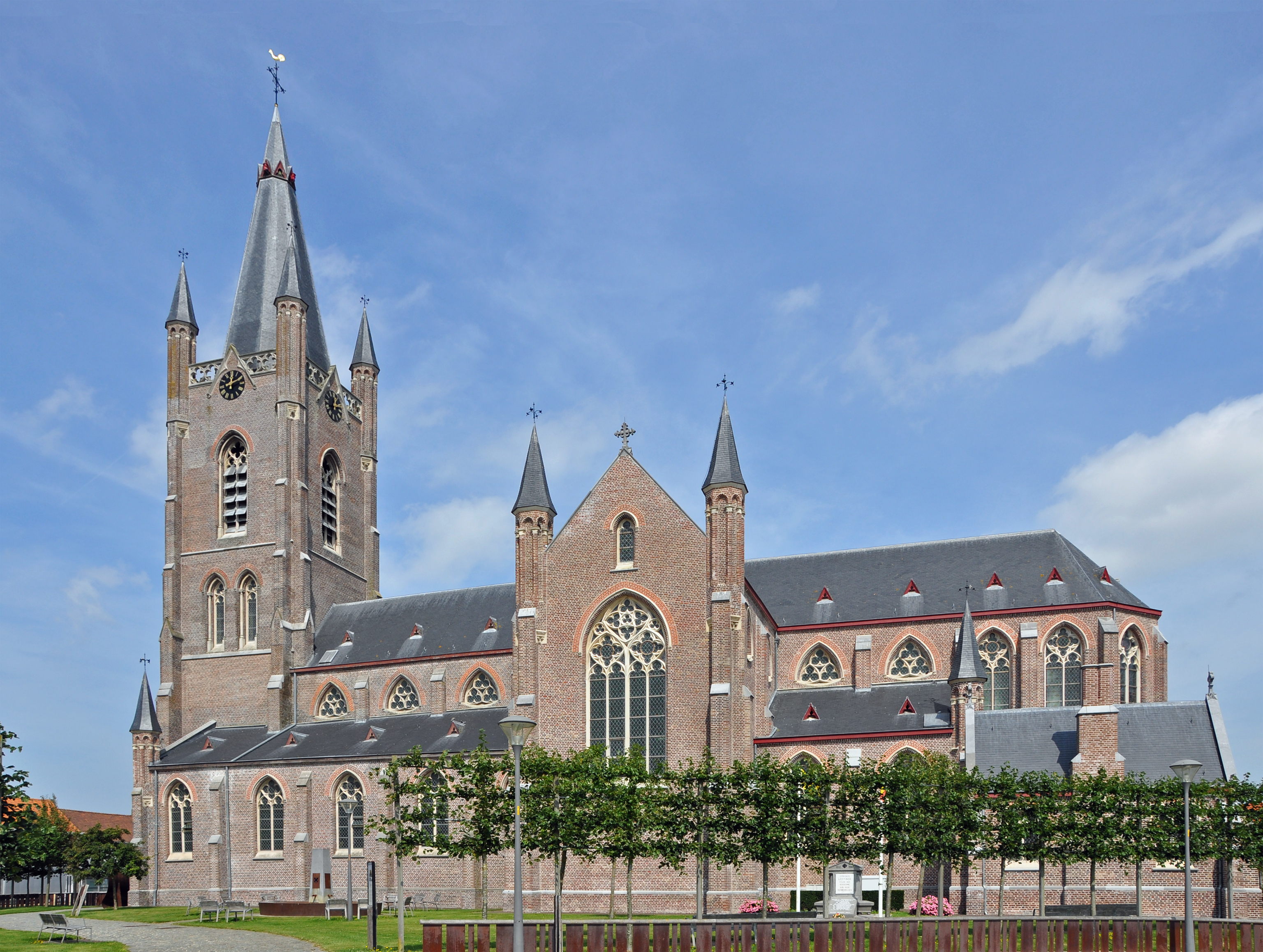 Leffinge (Middelkerke, province of West Flanders, Belgium): St Mary's church